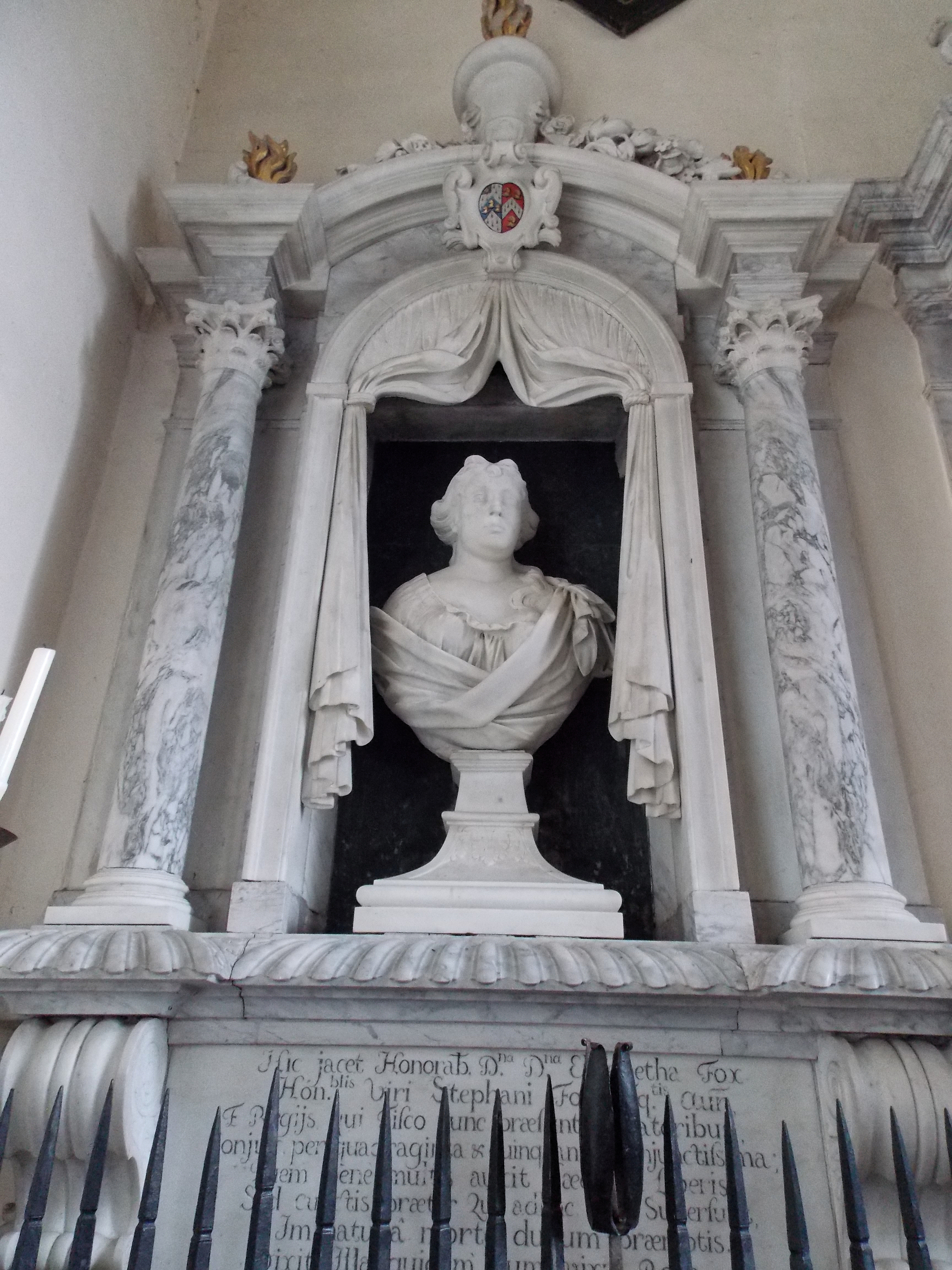 Wall-mounted monument to Elizabeth Whittle (died 1696), first wife of Sir Stephen Fox (1627-1716) in the Ilchester Chapel of All Saints' parish church, Farley, Wiltshire, England